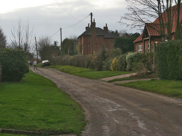 Westby, Lincolnshire Not many houses in this secluded hamlet.